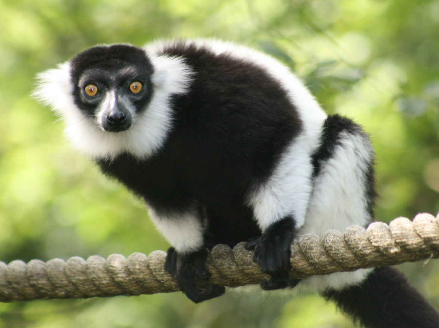 Black-and-white Ruffed Lemur (Varecia variegata) at Dudley Zoo, England.